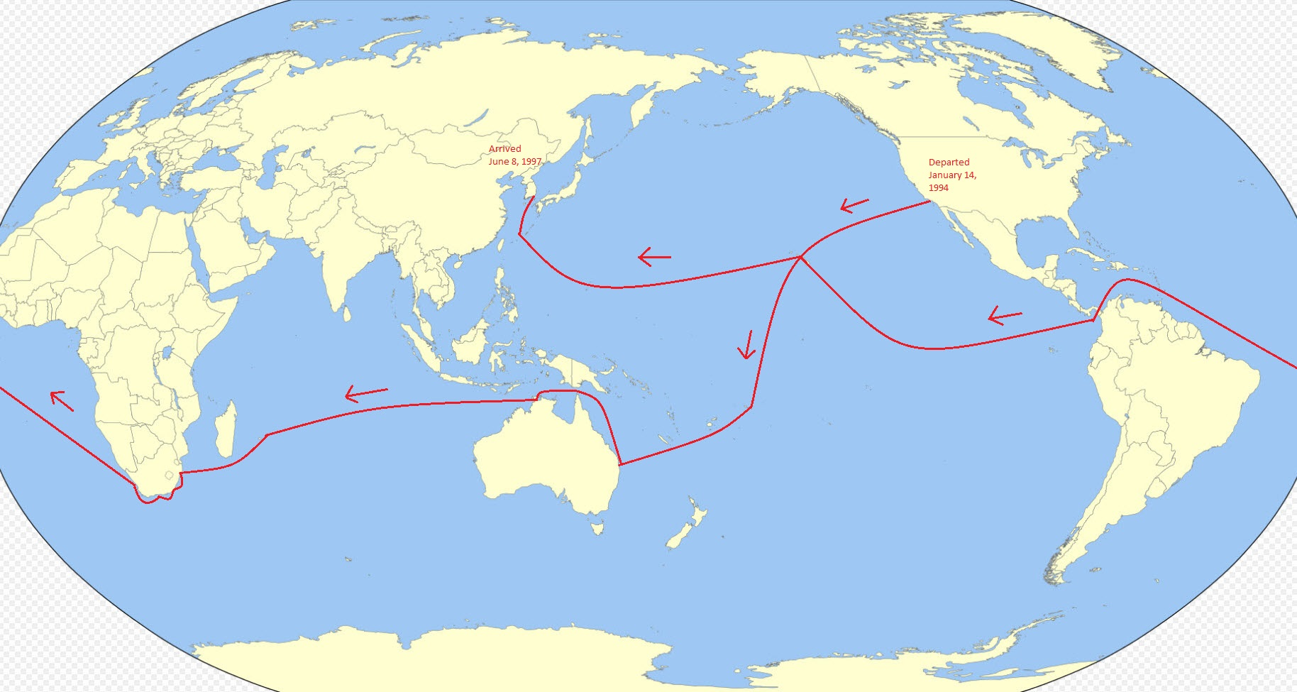 Sailing route of Pioneer 2, the first Korean sailboat to circumnavigation the globe alone